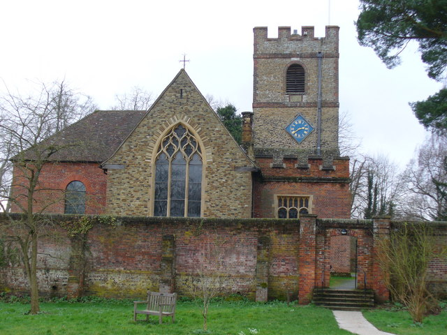 Wonersh Parish Church St John the Baptist has stonework from Norman to modern times. The church is now visible but was earlier hidden behind high walls.